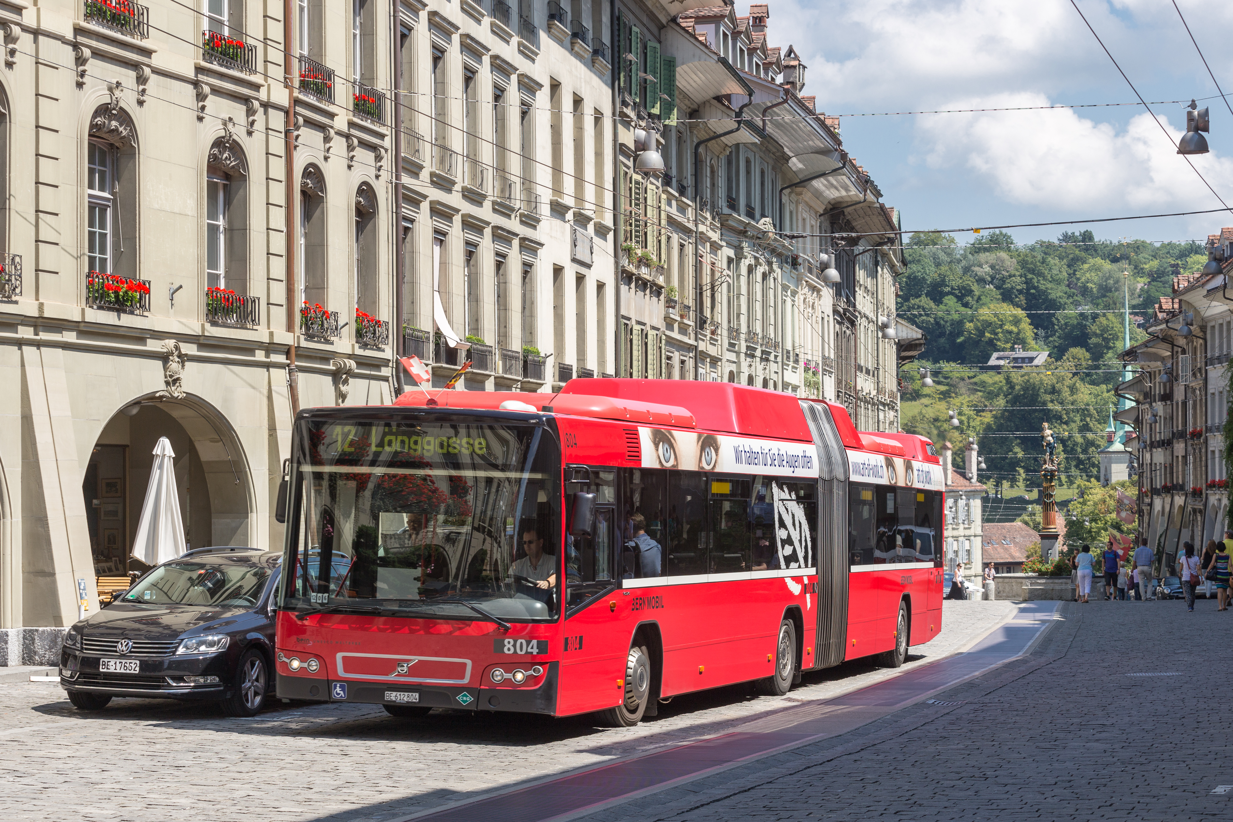 CNG-Bus Volvo 7700 G in Berne, Switzerland.